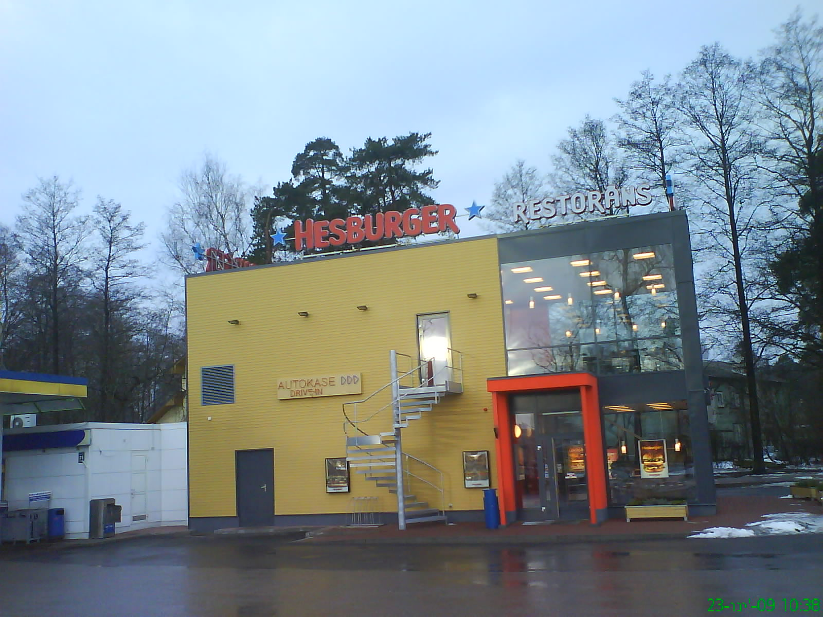 Hesburger in Jūrmala, Latvia